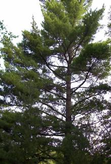 Eastern White Pine - my own photo Eastern White Pine in Arrowhead Provincial Park along Big East River